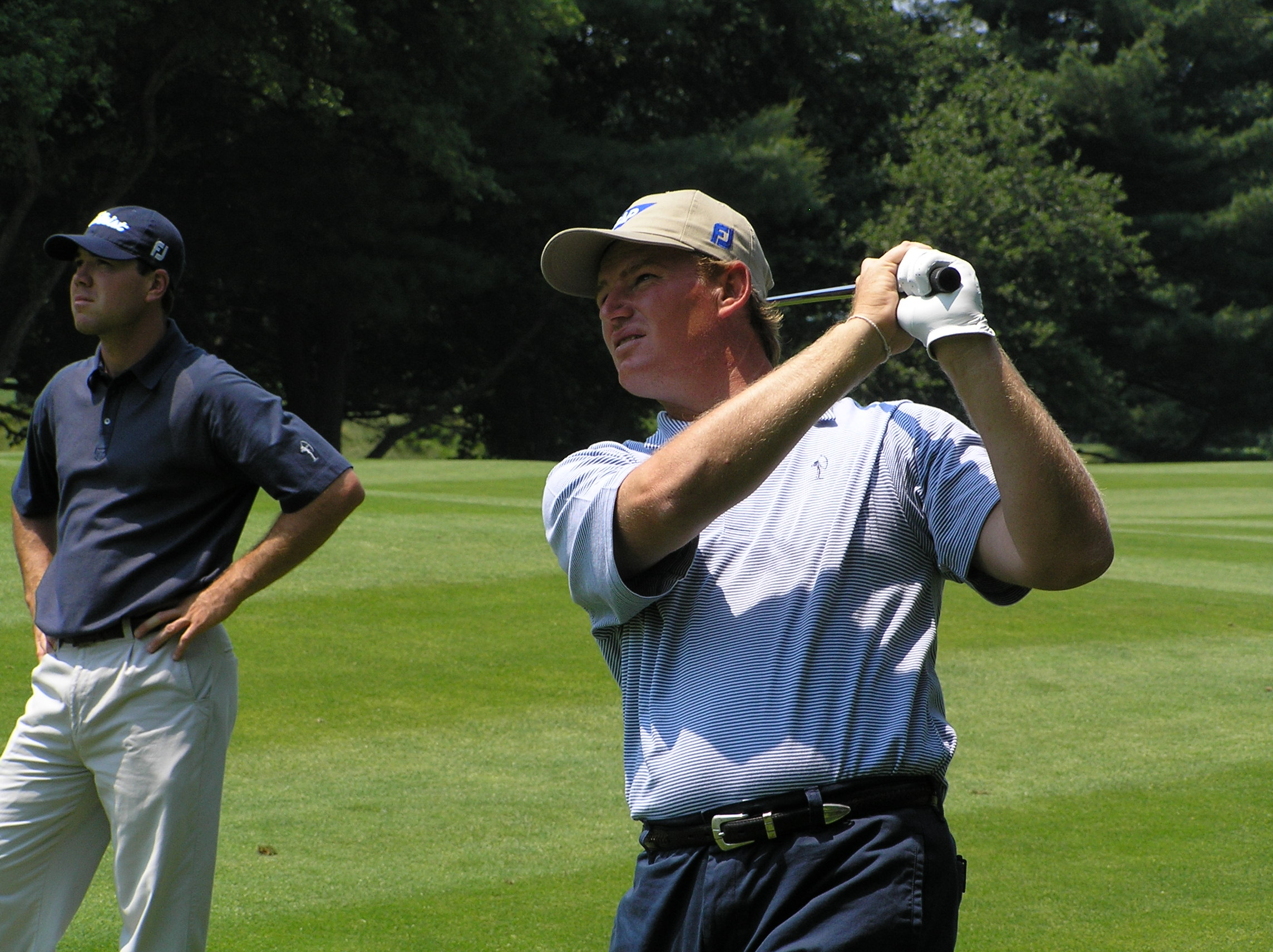 I took this photograph of Ernie Els at the Westchester Country Club during the 2004 Buick Classic. GNU Free Documentation License